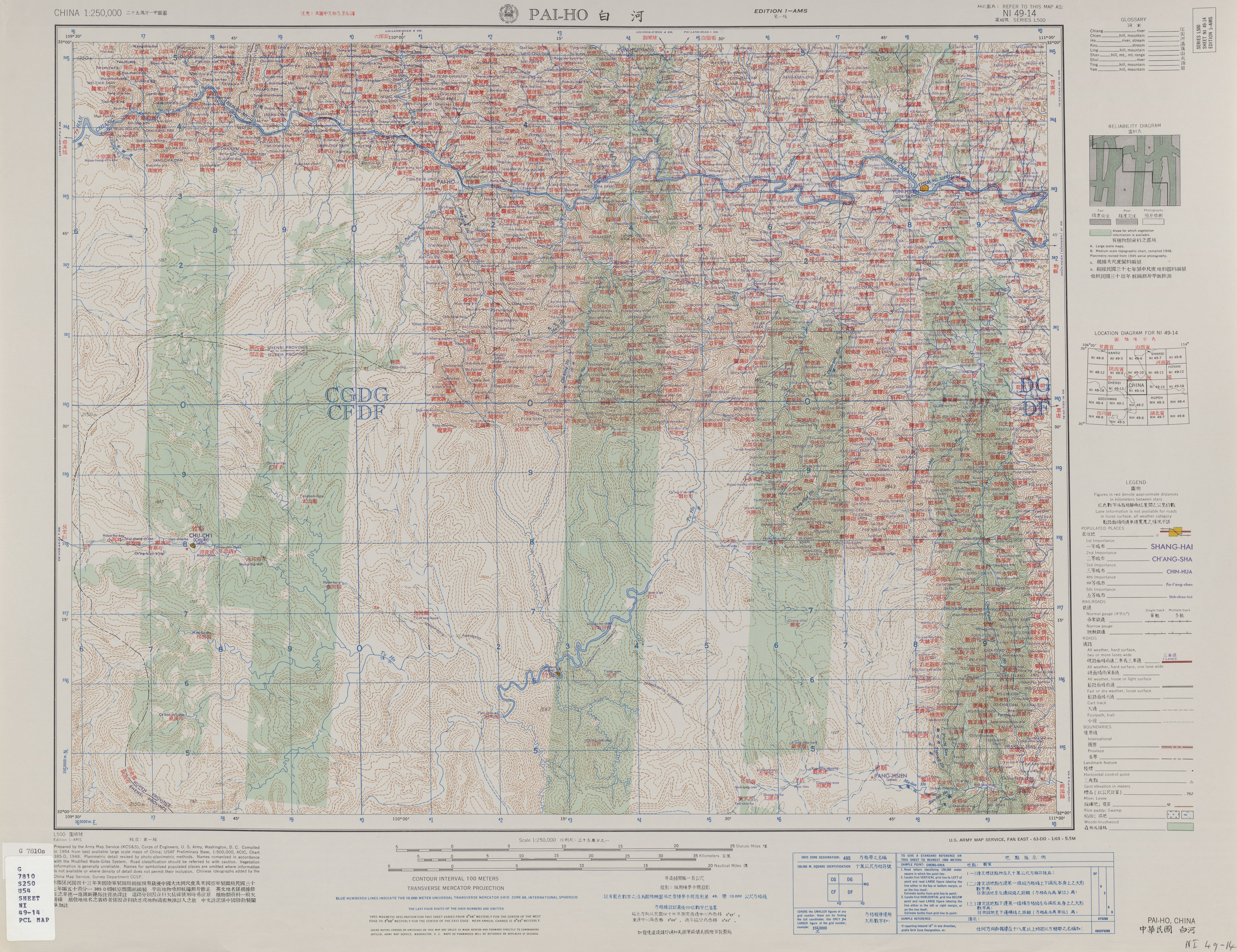 China AMS Topographic Maps